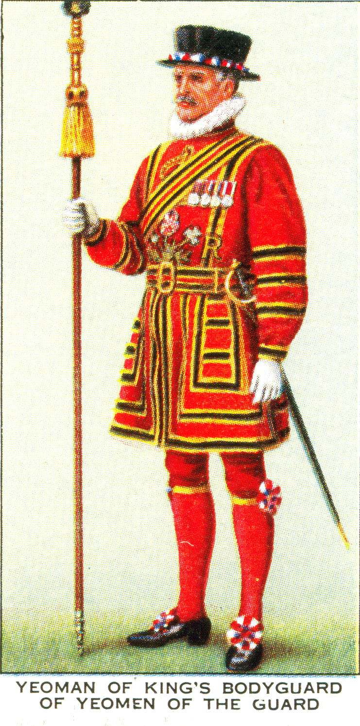 Player's cigarettes. Coronation series, ceremonial dress